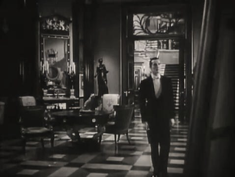 Hurd Hatfield in The Picture of Dorian Gray - trailer (cropped screenshot)